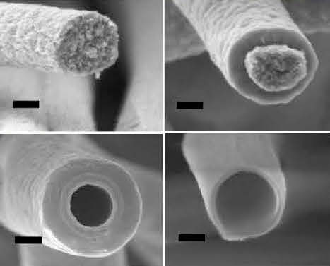 Clockwise from top-left: carbon fiber; poly-silicon layer coating the carbon fiber; silicon oxide tube remaining after removing the carbon core; covering the silcon oxide with polysilicon. Scale bars 200 nm